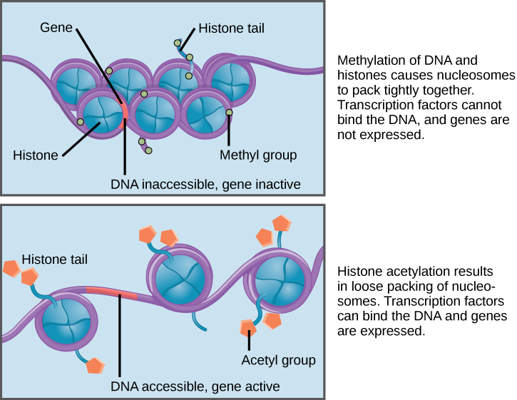 Name: Biology ID: Language: English Summary: Biology is designed for multi-semester biology courses for science majors. It is grounded on an evolutionary basis and includes exciting features that highlight careers in the biological sciences and everyday applications of the concepts at hand. To meet the needs of today’s instructors and students, some content has been strategically condensed while maintaining the overall scope and coverage of traditional texts for this course. Instructors can customize the book, adapting it to the approach that works best in their classroom. Biology also includes an innovative art program that incorporates critical thinking and clicker questions to help students understand—and apply—key concepts. Subjects: Science and Technology Keywords: cells,DNA,gene,expressio,nphylogeny,conservation,biodiversity,biology,chemistry,evolution,proteins,bacteria,fungi,cell,membranes,inheritance,physiology,ecology,genetics,biotechnology,biosphere,photosynthesis,biological,molecules,cell structure,metabolismc,ellular respiration,genes,cell communication,cell reproduction,meiosis,sexual reproduction,genomics,study of life,cell function,animal diversity,animal reproduction,plant nutrition,soilseedless plantsplant physiologyplant reproductionanimal bodycirculatory systemdigestive systemendocrine systemnervous systemrespiratory systemorigin of speciesecosystemsarchaeasensory systemosmotic regulationimmune systemvertebratesviruspopulation ecologymusculoskeletal systembehavioral biologyanimal biologyanimal physiologybiology for majorscollege biologyeukaryotesinvertebratesmacromoleculesplant biologypopulation evolutionprokaryotesprotistsseed plants Print Style: CCAP Biology License: Creative Commons Attribution License (by 4.0) Authors: OpenStax Copyright Holders: Rice University Publishers: OpenStax OpenStax Biology Latest Version: 10.53 First Publication Date: Aug 22, 2012 Latest Revision: May 27, 2016 Last Edited By: OpenStax Biology